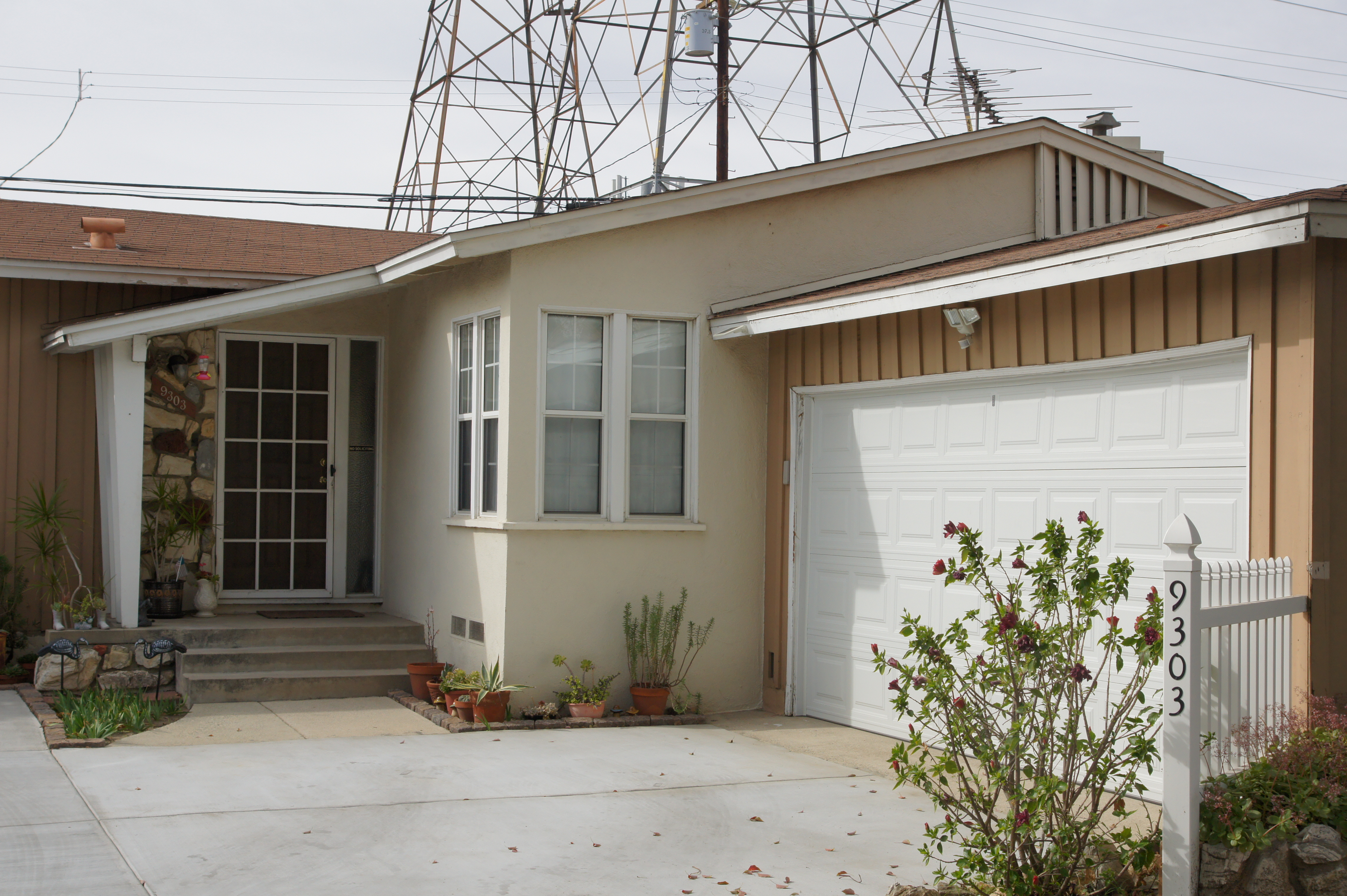 The house of MсFly family 02